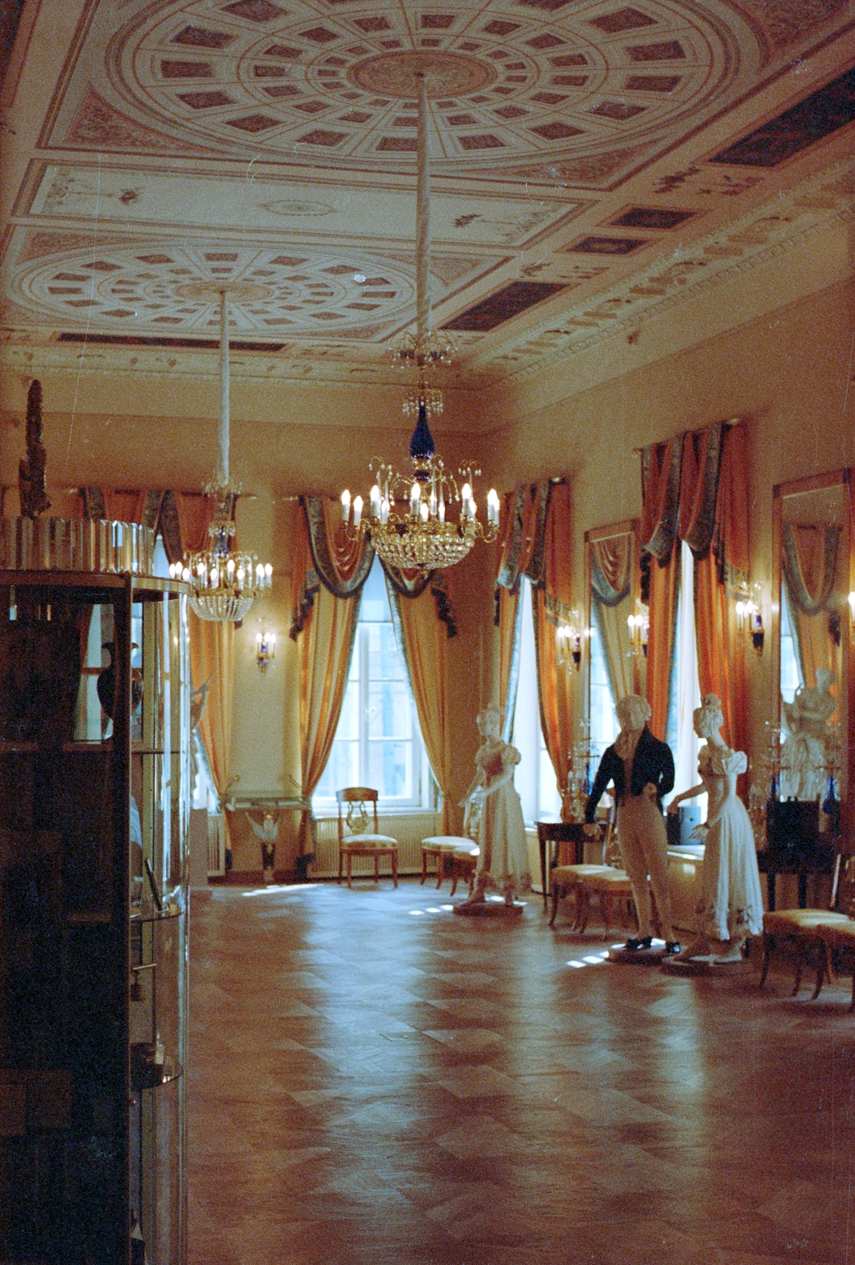 Interior of the Moscow Pushkin Museum. Ball Room.